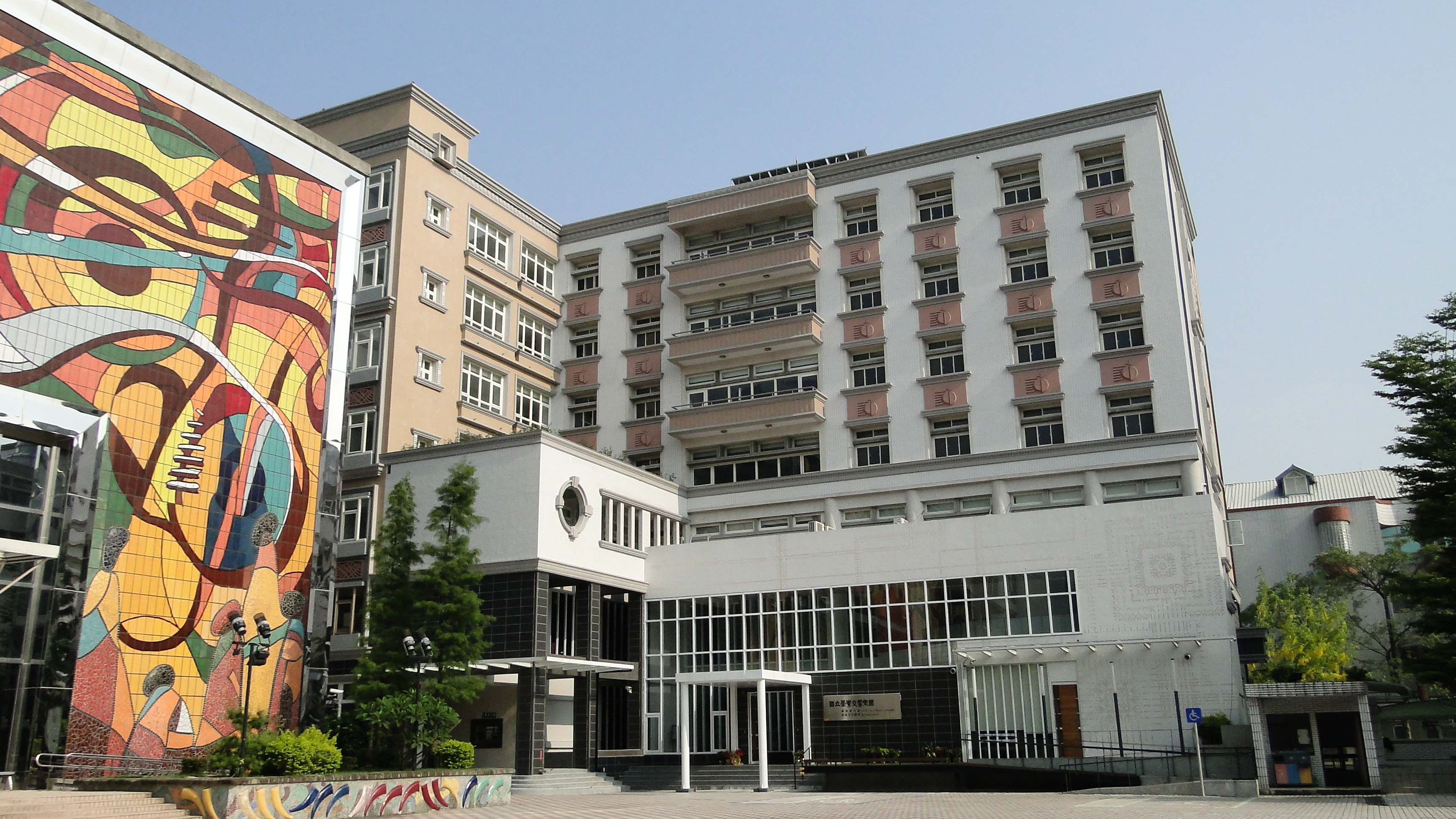 National Taiwan Symphony Orchestra,Exhibition of Music Instrument and multMedia Center中文（台灣）: 國立臺灣交響樂團 臺灣音樂文化園區